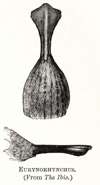 Bill of spoonbilled Sandpiper